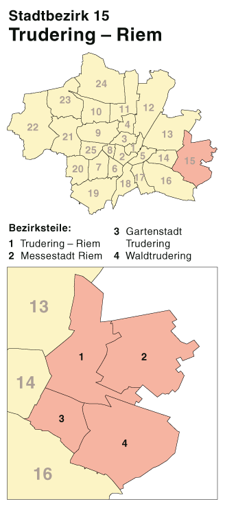 Boroughs of Munich map series